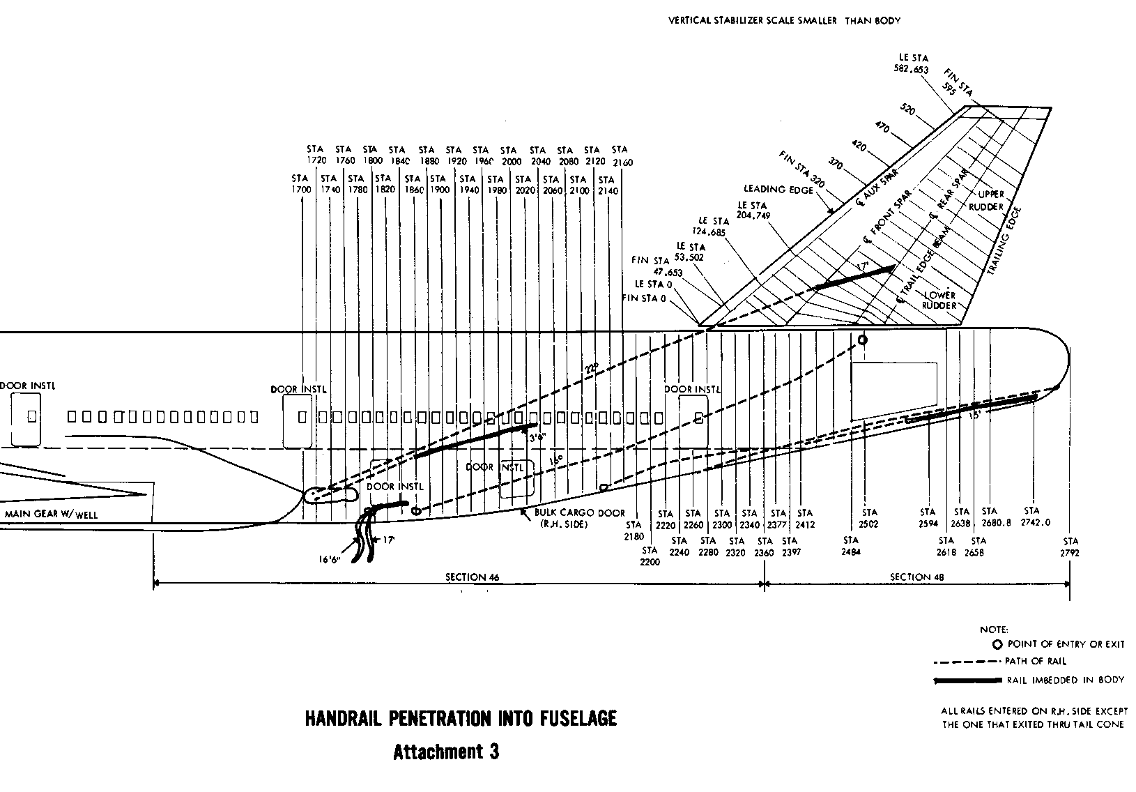 Diagram showing damage sustained by Pan Am Flight 845 from collision with Approach Lighting System structures